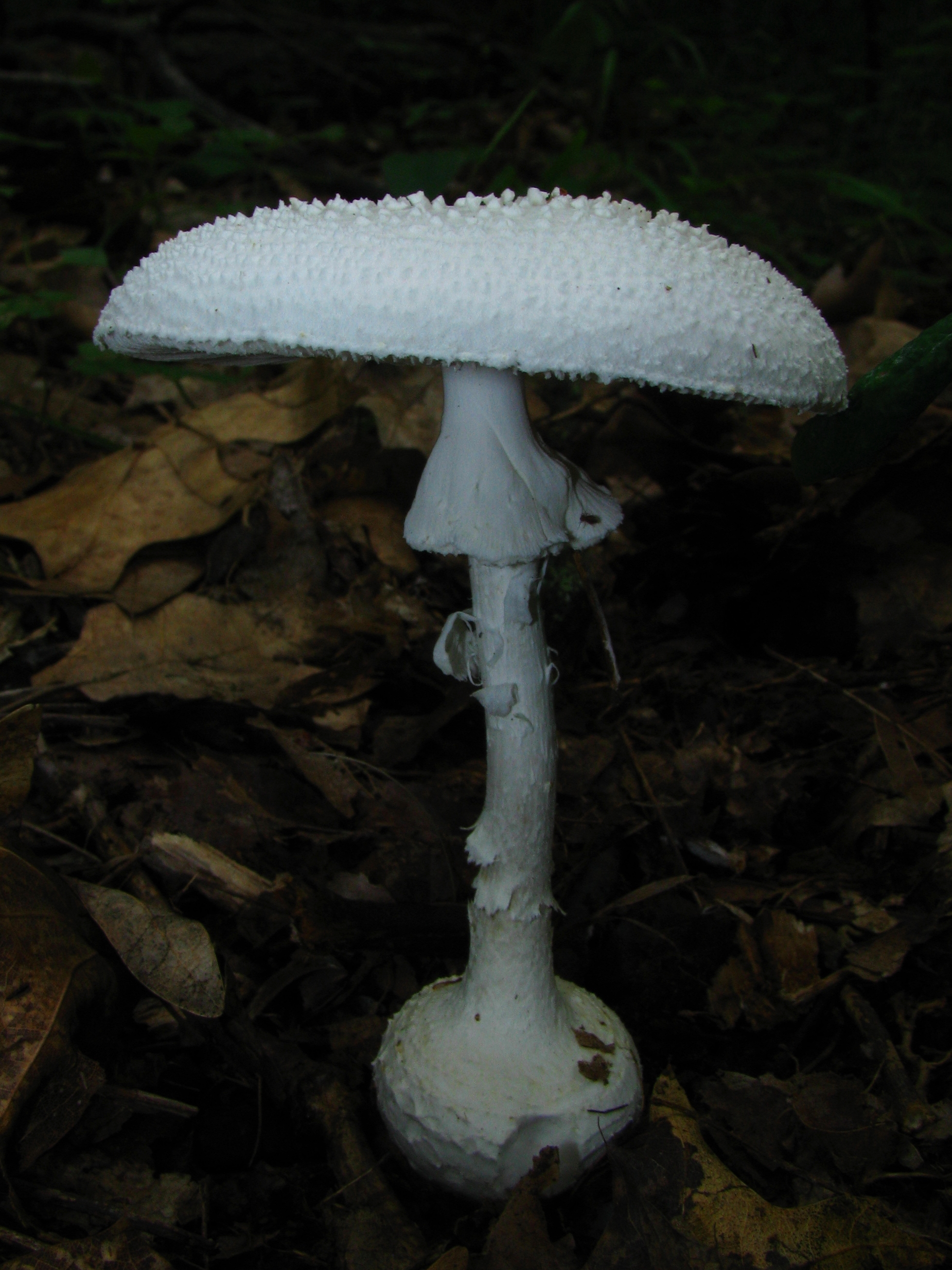 The mushroom Amanita abrupta Peck. Photographed in Strouds Run State Park, Athens, Ohio, USA.